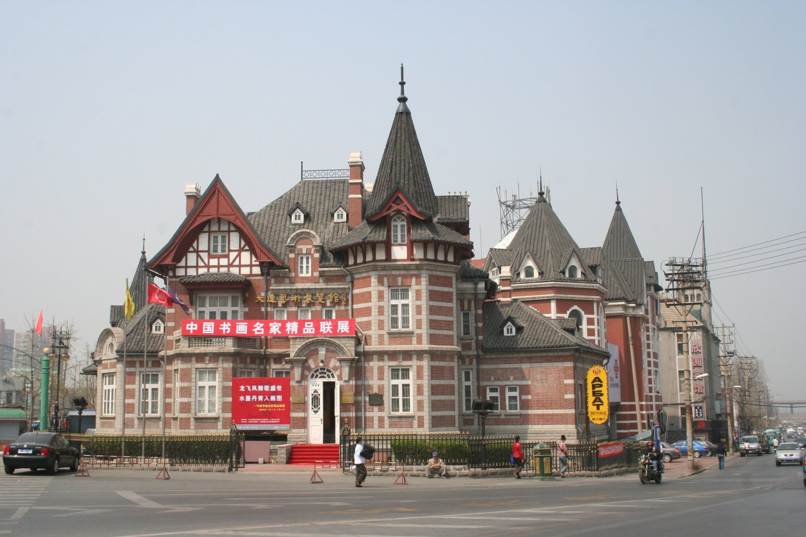 Administrative building of Russian steamship company in Dalny City (now Dalian, PRC)